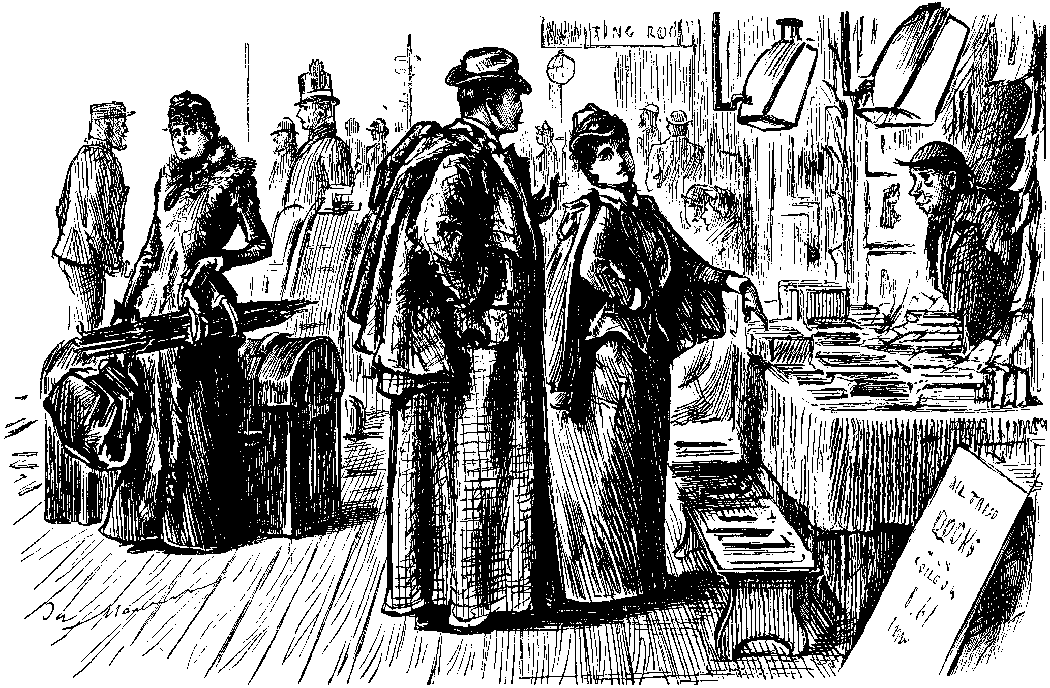 Emancipation. Young Bride of Three Hours' standing (just starting on her Wedding Trip). — "Oh, Edwin dear! Here's Tom Jones. Papa told me I wasn't to read it till I was married! The day has come ... at last! Buy it for me, Edwin dear."